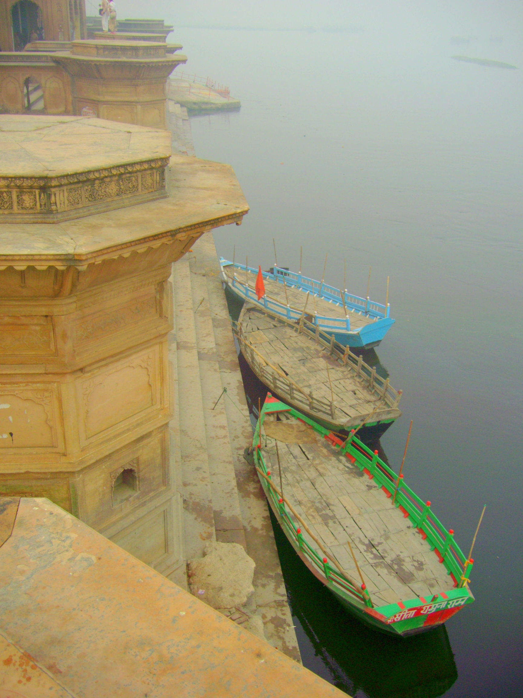 Keshighat at Vrindavan, UP, India, on Yamuna River